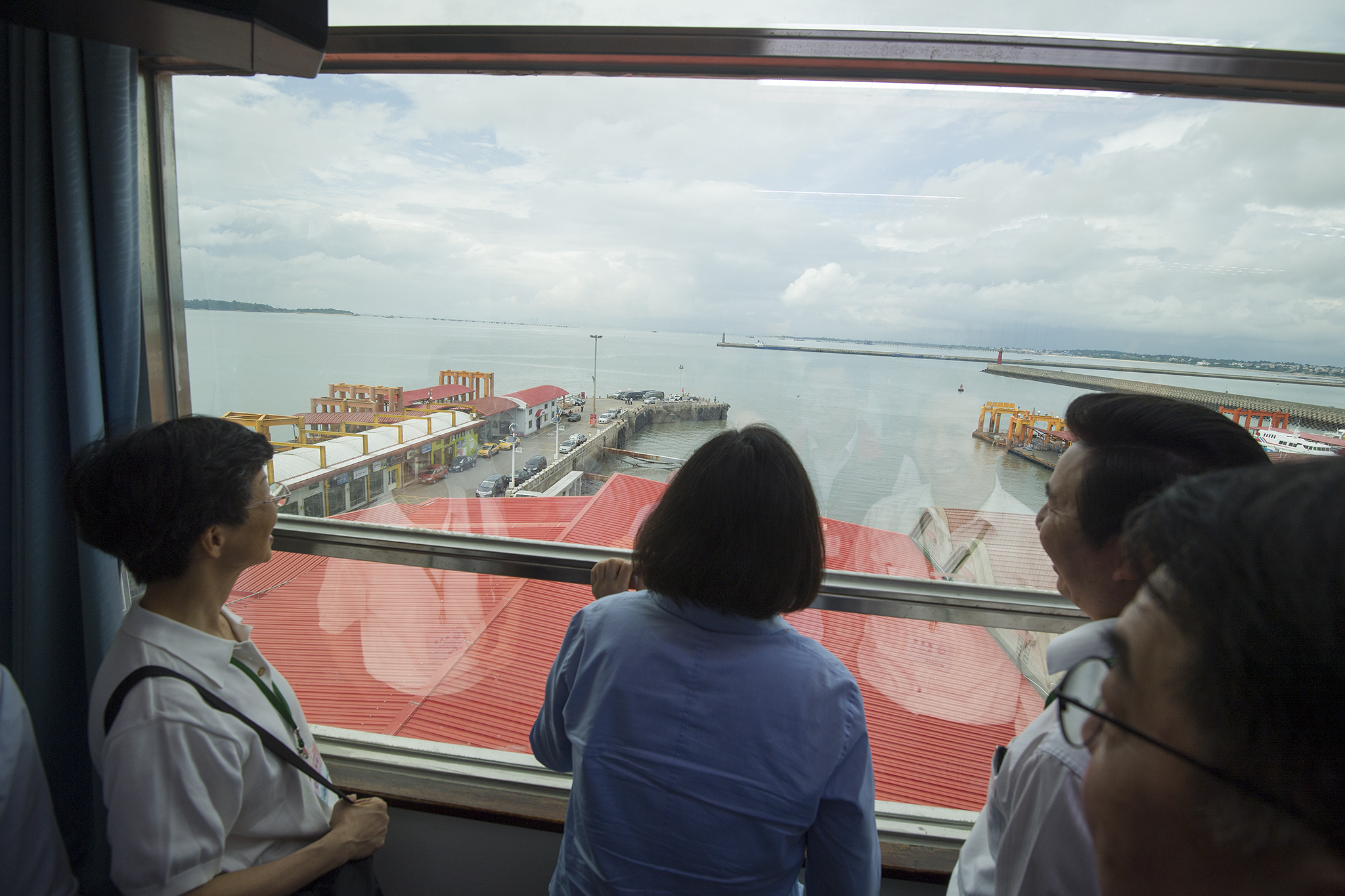 授權方式及範圍：中華民國總統府│政府網站資料開放宣告 Authorization Method & Scope: Office of the President, Republic of China (Taiwan) | Government Website Open Information Announcement